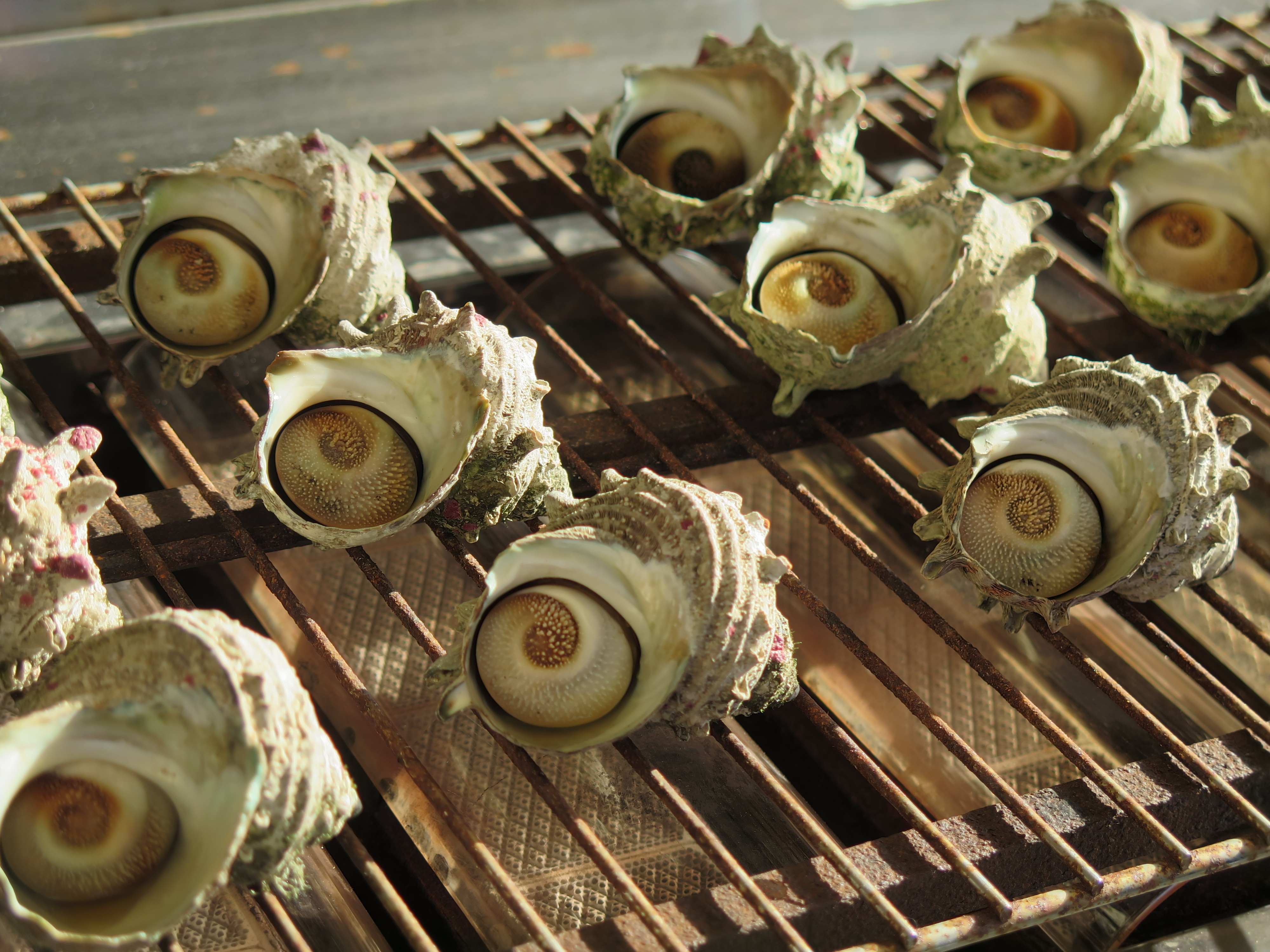 A half dozen turbo cornutus snails (sazae) on a grill. Served in southern Wakayama, Japan.